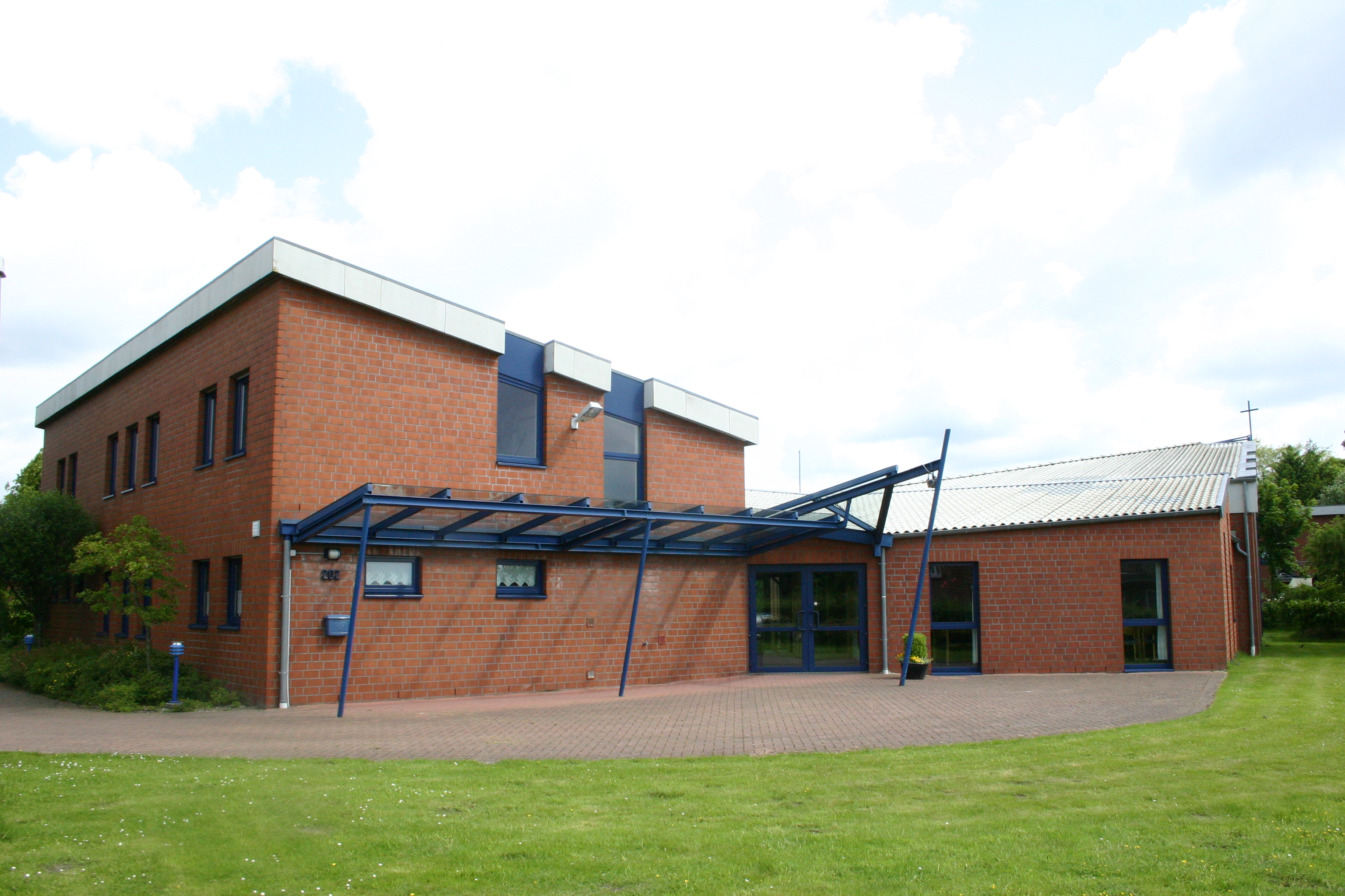 Baptist church in Aurich-Rahe, district of Aurich, East Frisia, Germany